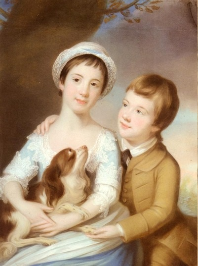 Portrait of George Henry Fitzroy Earl of Euston Later 4th Duke Of Grafton and Lady Georgina Fitzroy